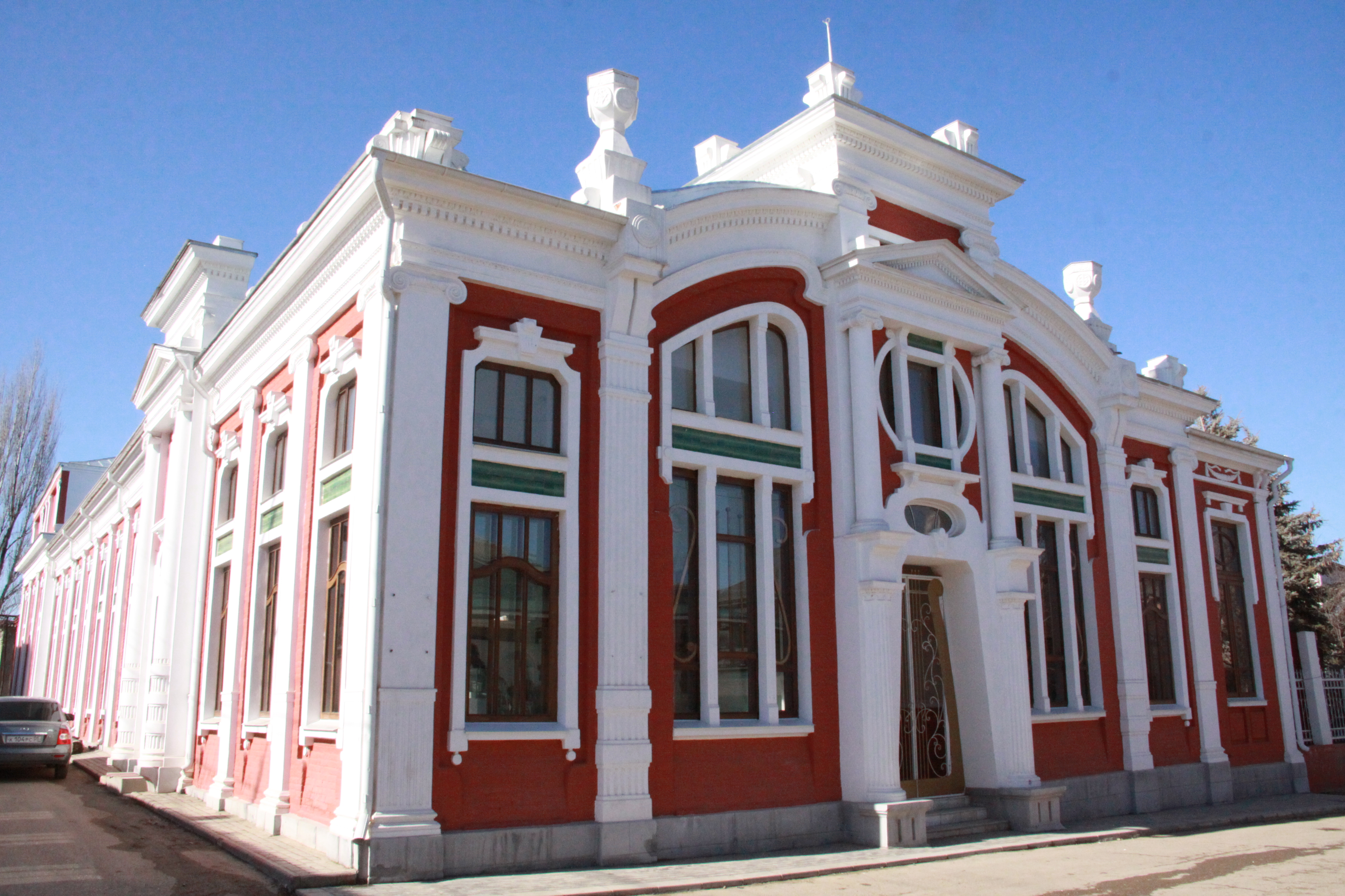 Buynaksk Local History Museum